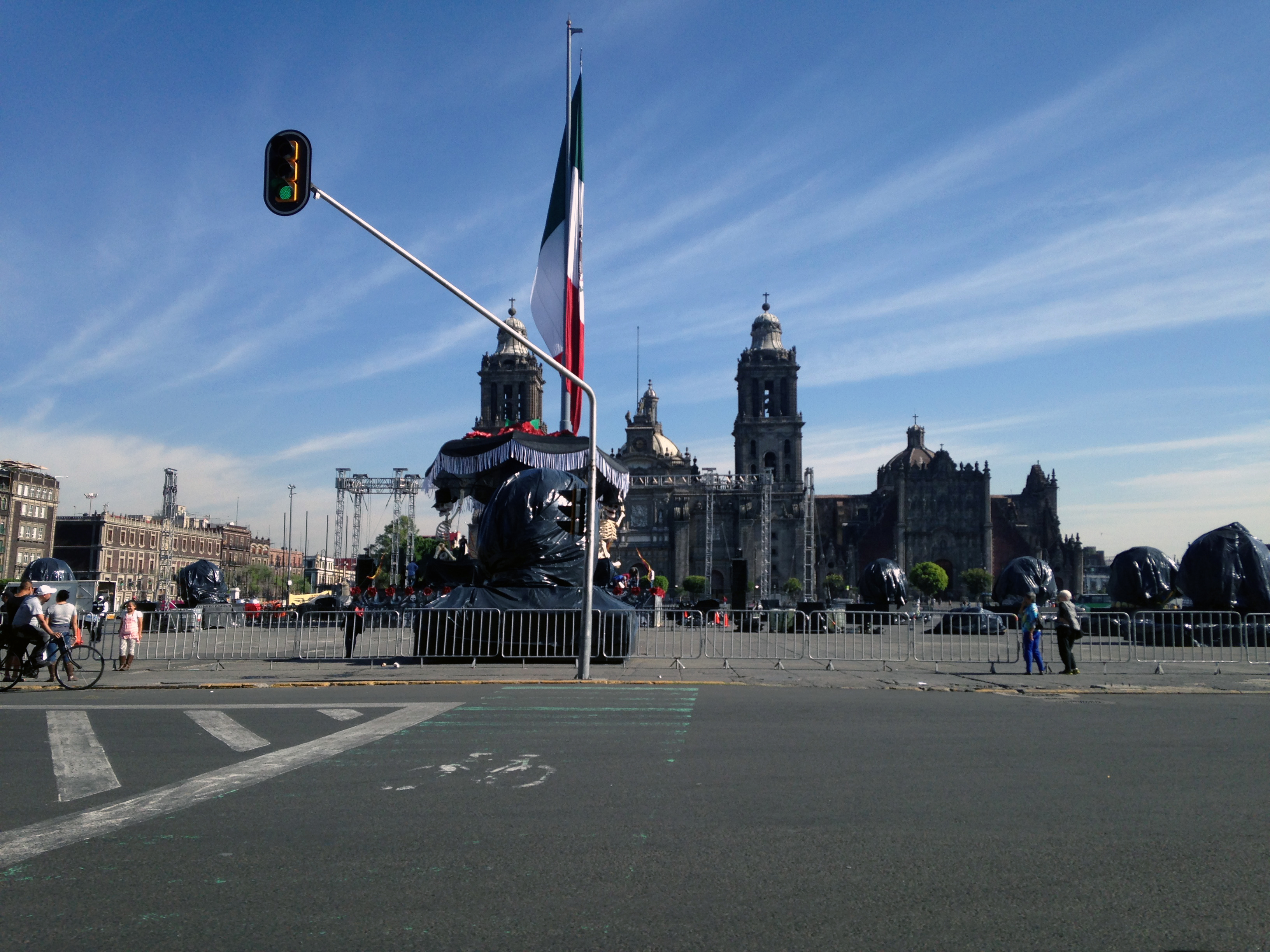 Mexico City Zocalo closed by Spectre (2015 film) recording with Day of the Dead staging